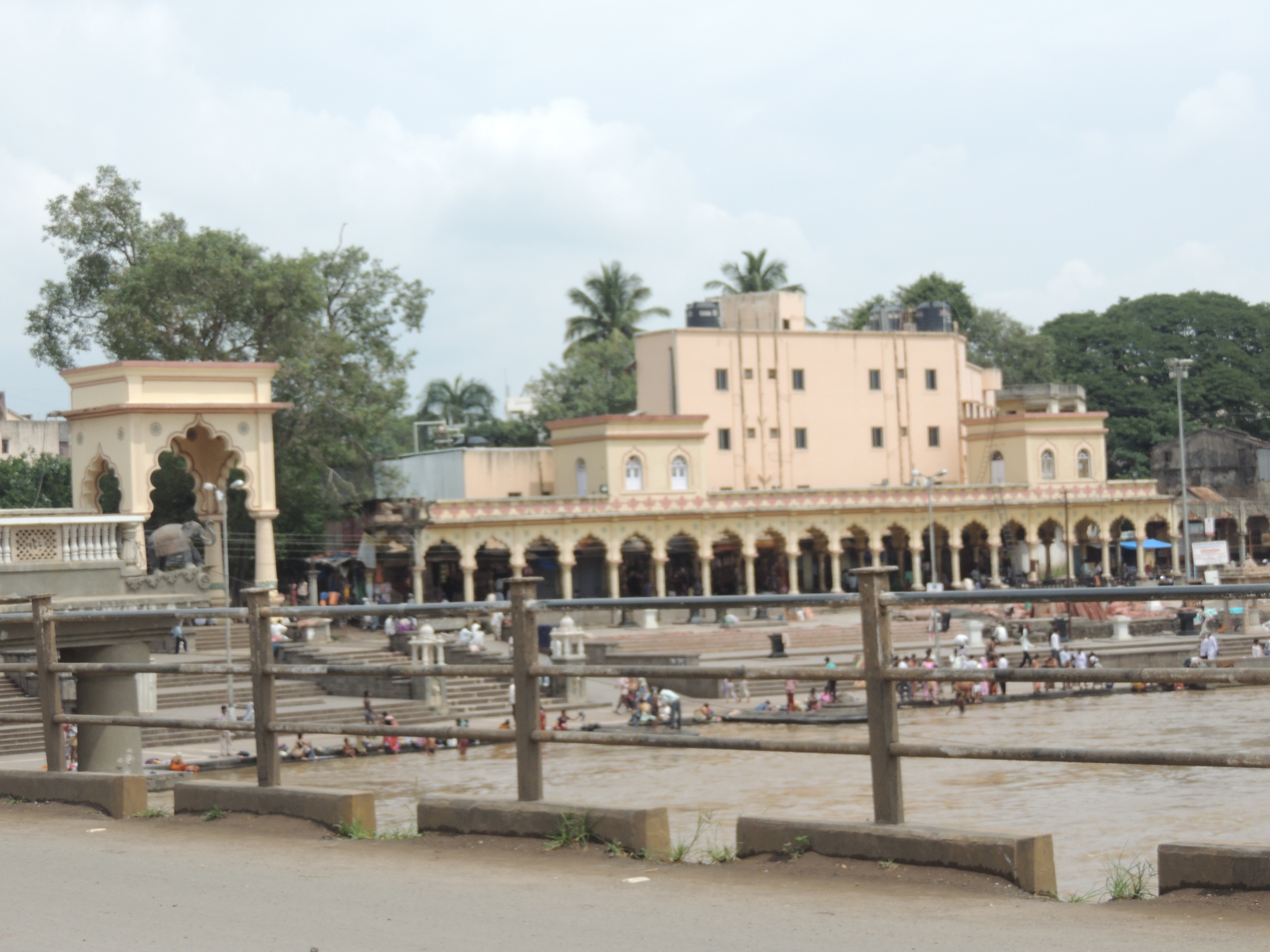 Aalandi entrance im pune